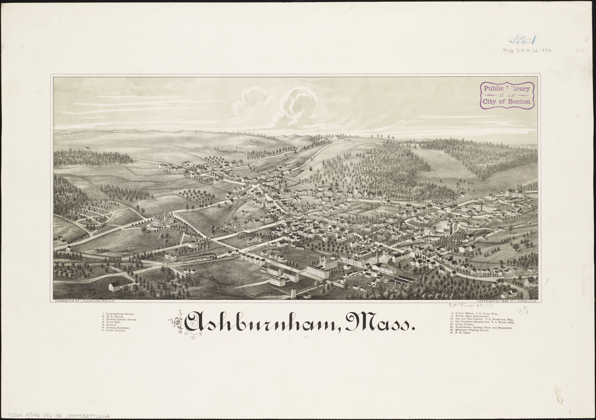 Zoom into this map at . Author: Burleigh, L. R. Publisher: L.R. Burleigh Date: c1886. Location: Ashburnham (Mass. : Town) Scale: Not drawn to scale. Call Number: G3764.A72A3 1886.B8